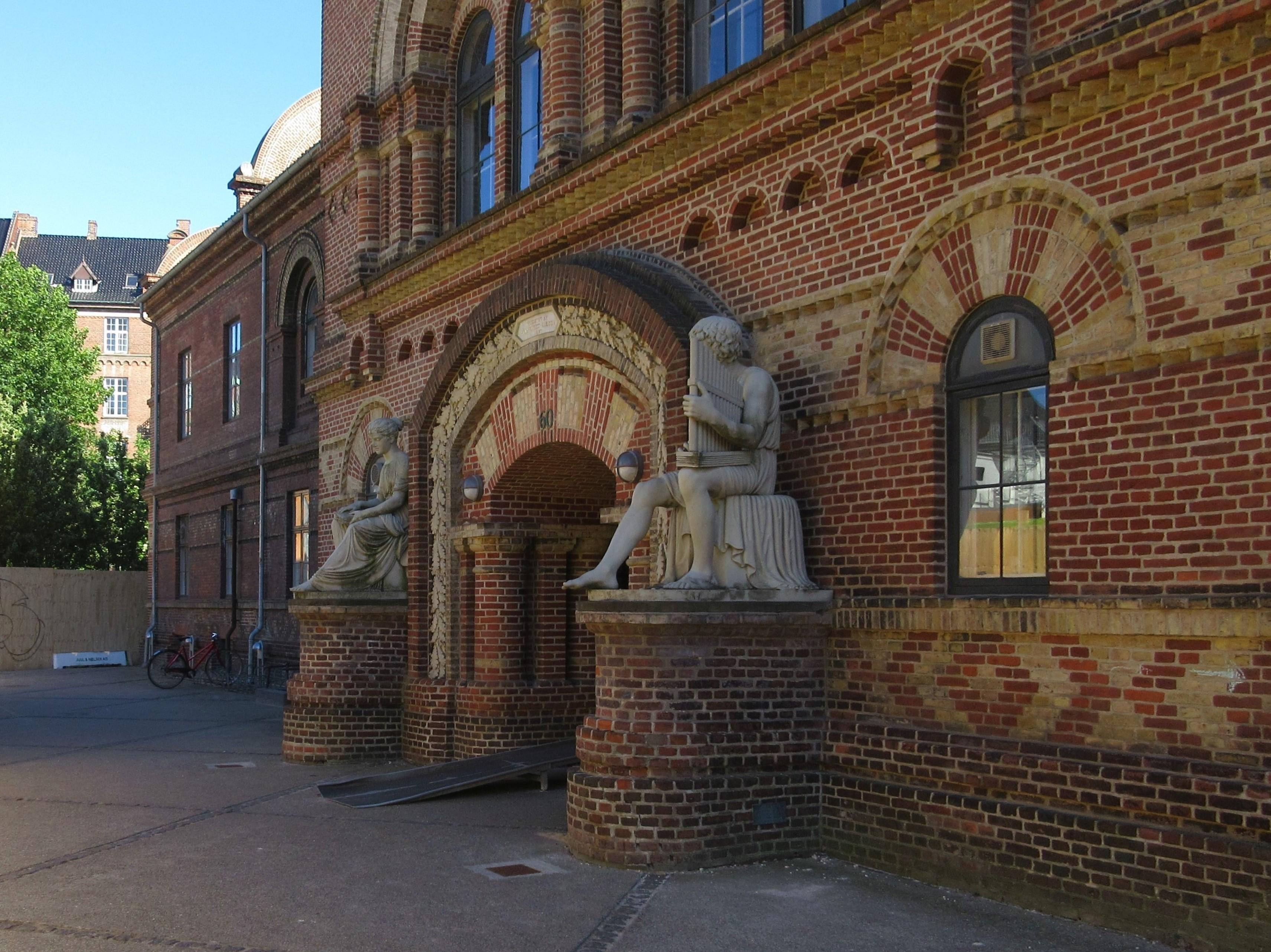 The main entrance of the former Institute for the Blind in Kristianiagade in Copenhagen, Denmark